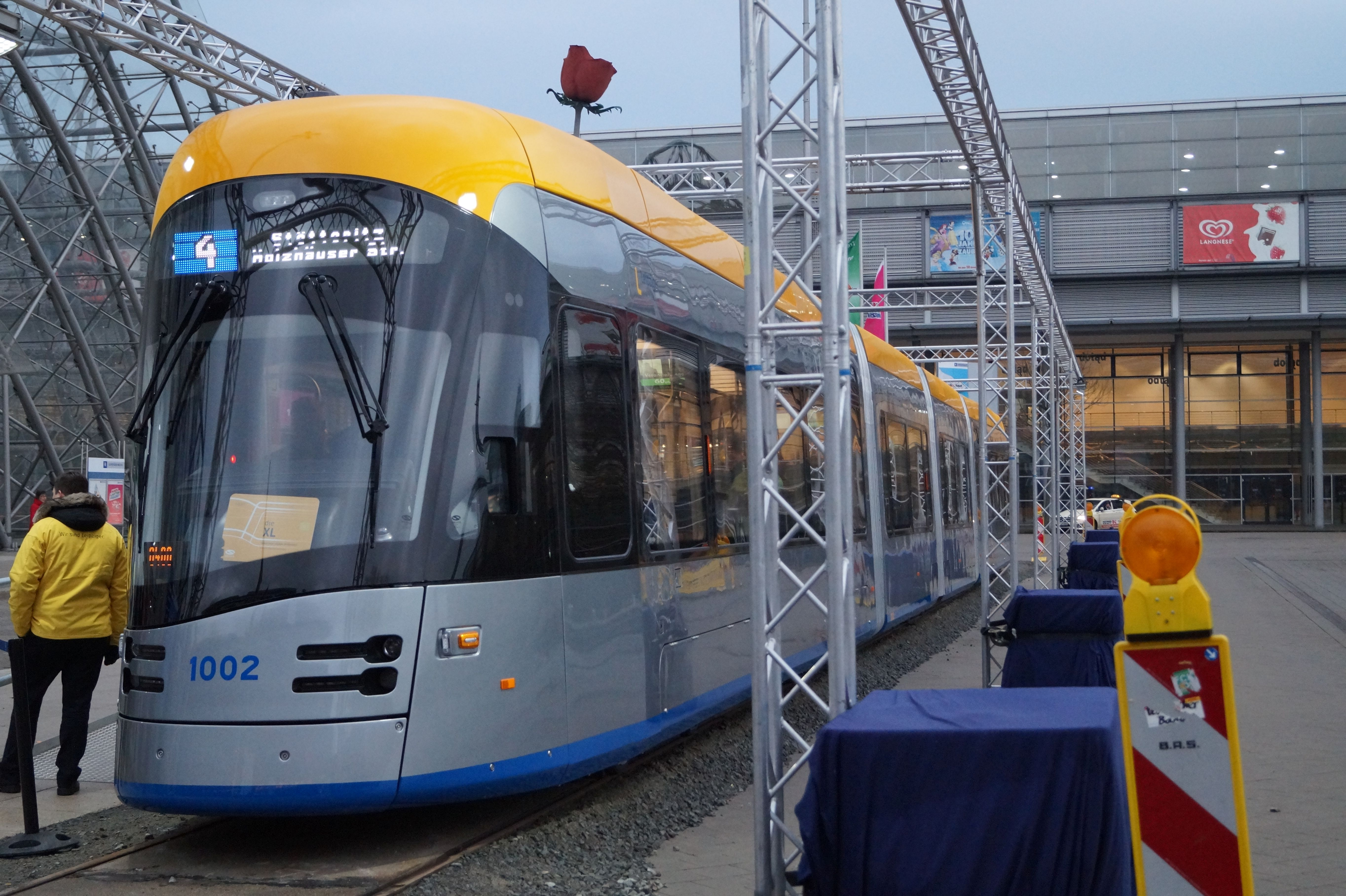 Solaris Tramino NGT10 1002 auf dem Leipziger Messegelände - Frontansicht